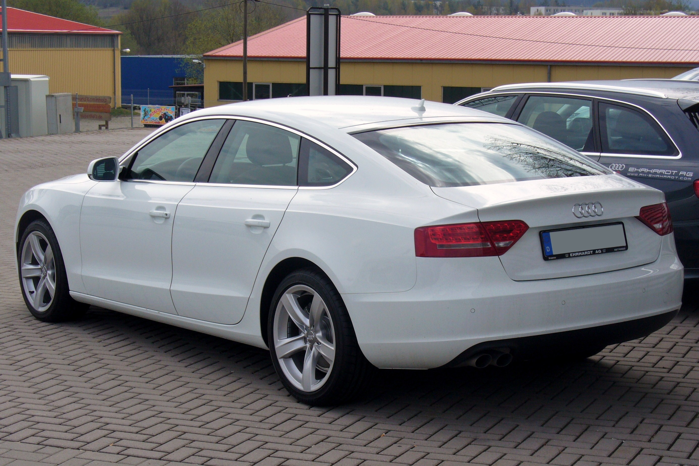 Audi A5 Sportback